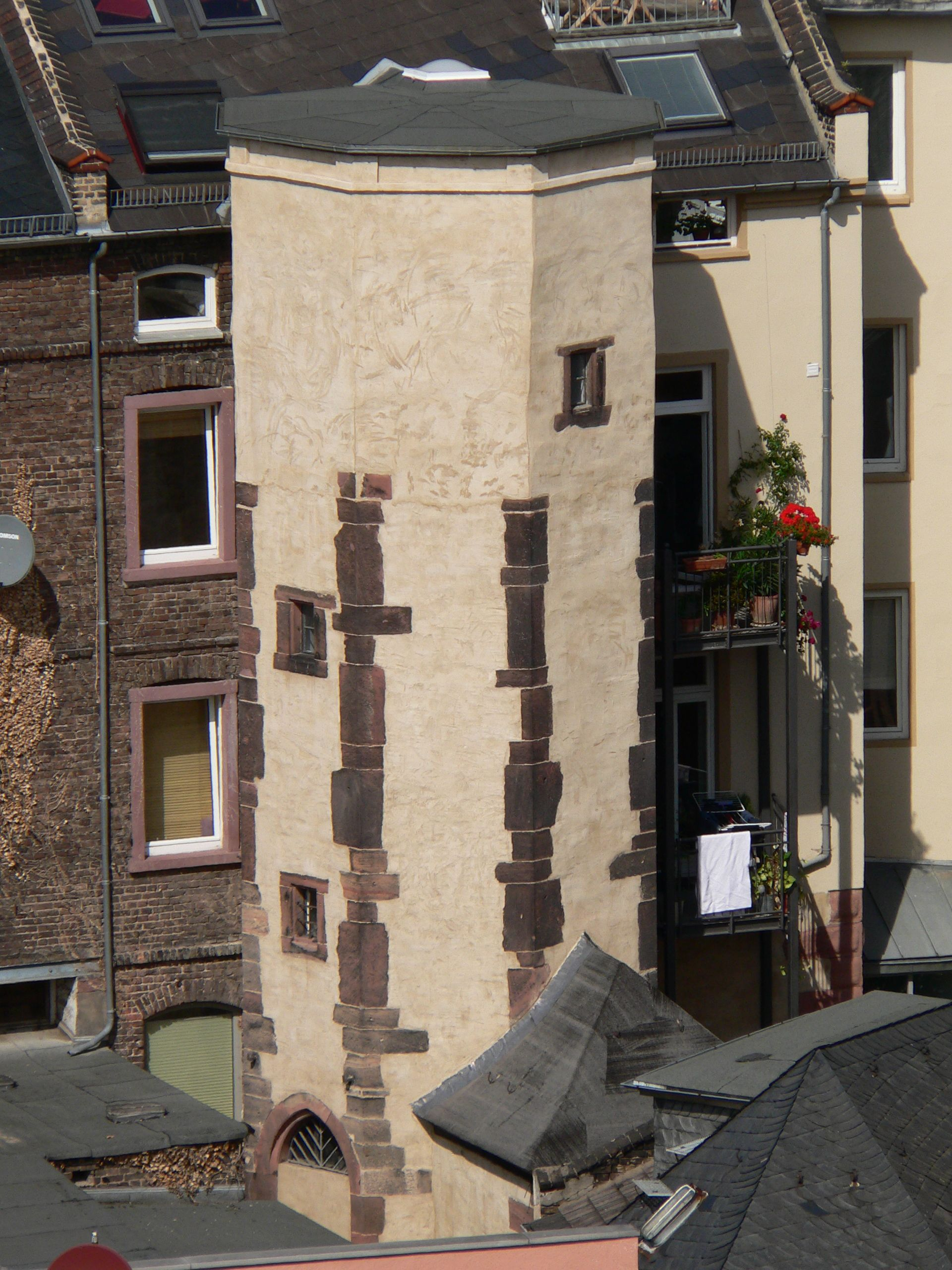 Rear side of the house Am Markt 3 in Frankfurt-Höchst with the preserved octagonal gothic staircase tower of the Zehnthof (tithe court). The image is related to Image:Abriss Zehnthof Höchst 1893.jpg that shows the demolition of the Tithe Court in 1893.